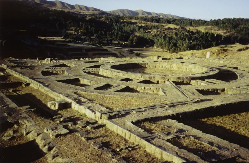 Muyucmarca and the remaining base of the circular tower